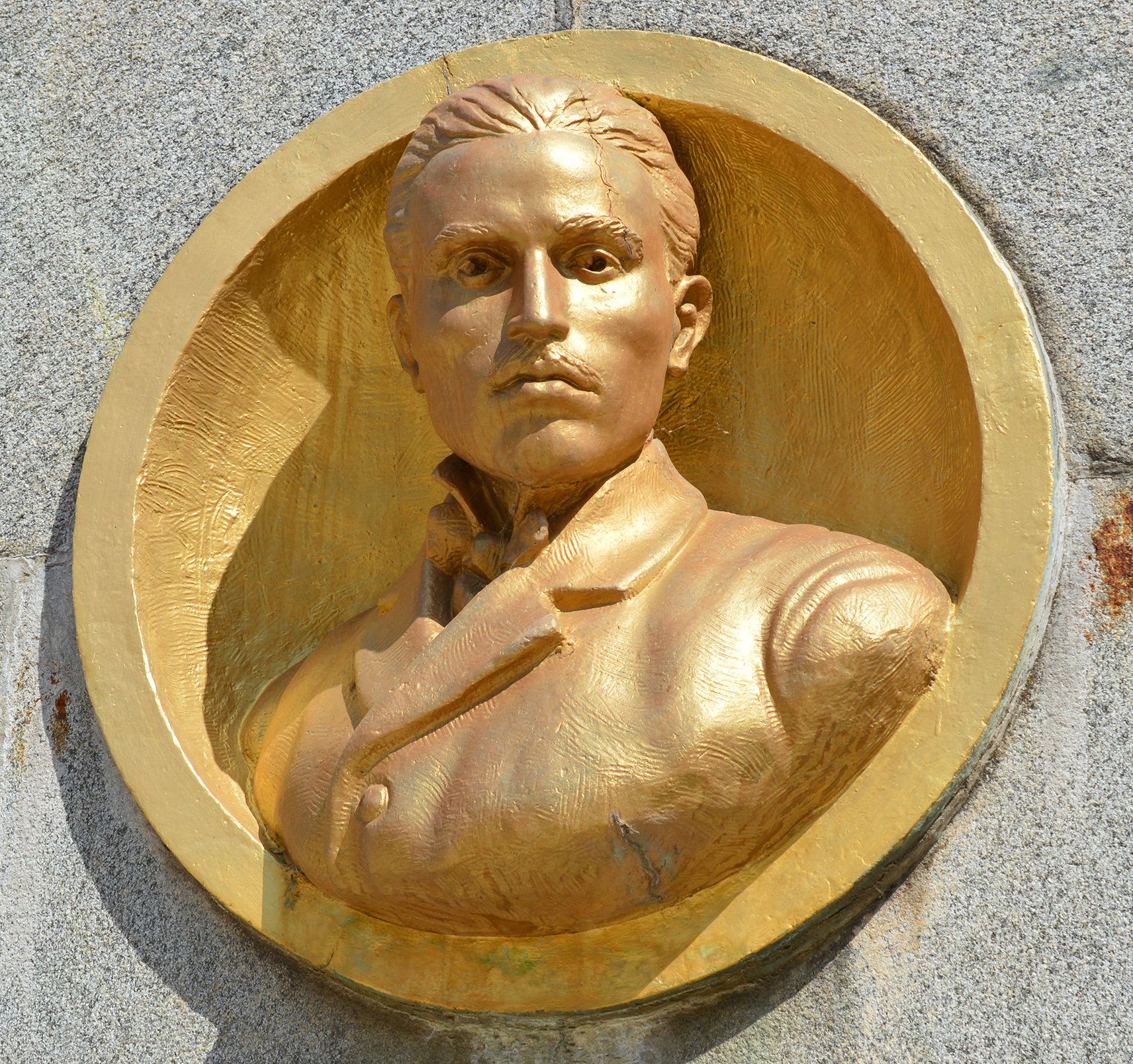 Relief of the poet Stamen Panchev. Botevgrad, Bulgaria.